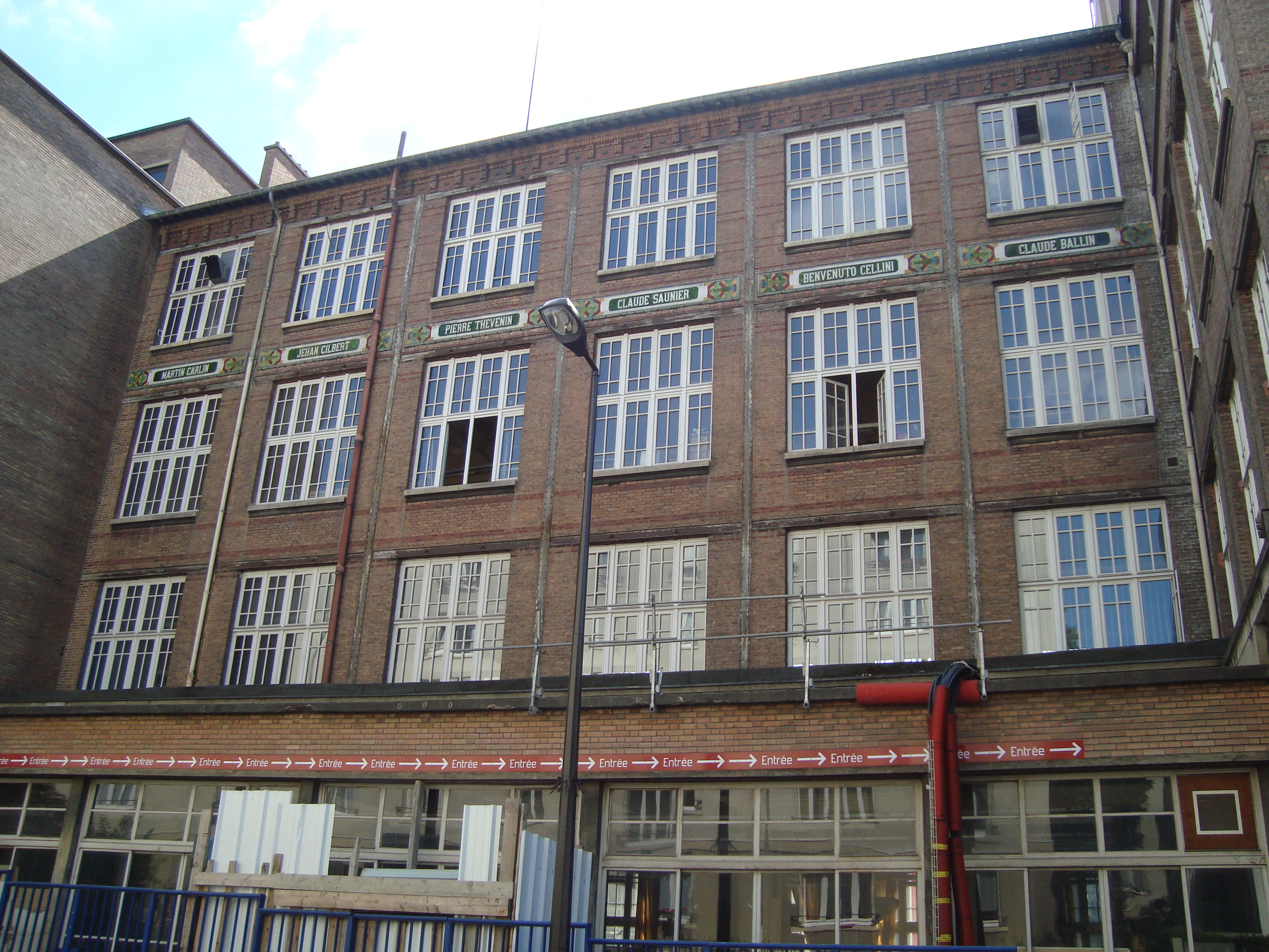 Facade of the art school École Boulle in Paris